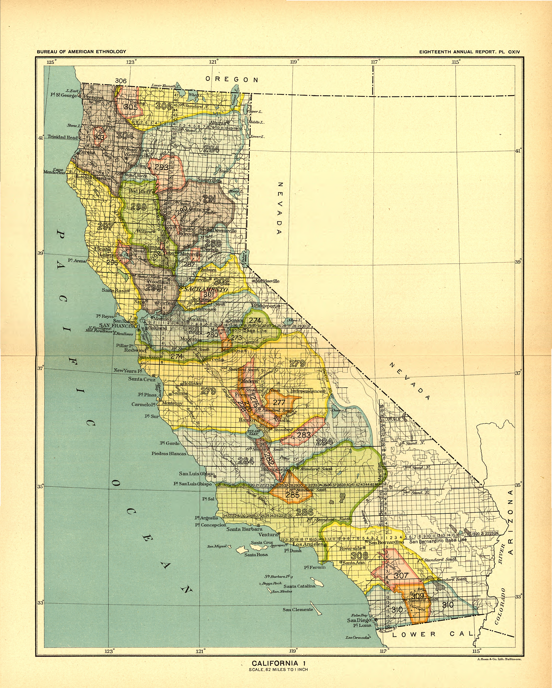 1896 Map published in 1899 by the Government Printing Office Maps section of: EIGHTEENTH ANNUAL REPORT OF THE BUREAU OF AMERICAN ETHNOLOGY TO THE SECRETARY OF THE SMITHSONIAN INSTITUTION 1896-97 BY J. W. POWELL DIRECTOR IN TWO PARTS-PART 2